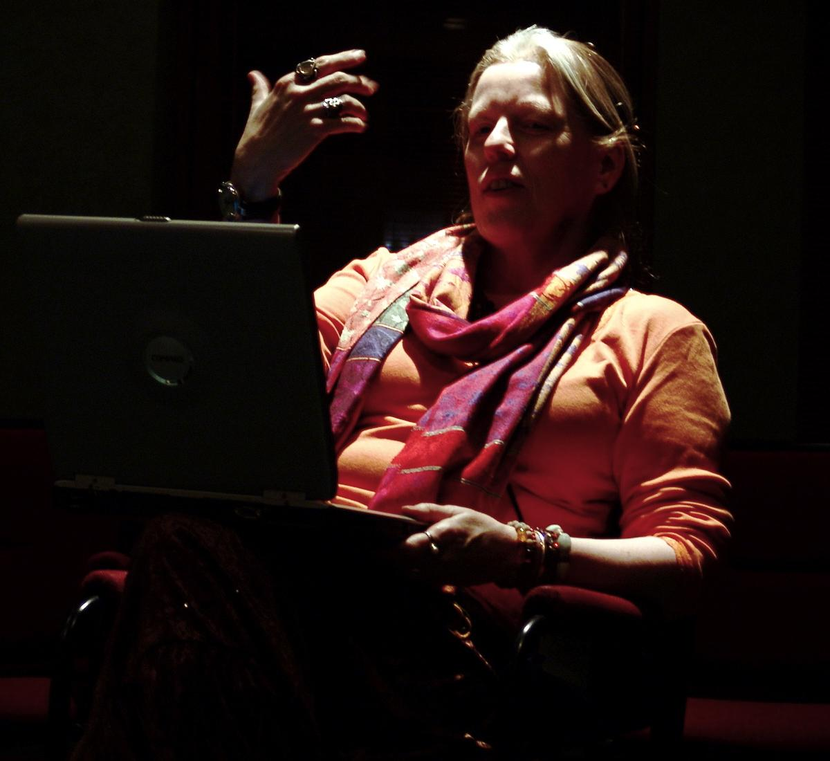 Candas Jane Dorsey giving a talk in Montreal in 2006 Congres Boreal